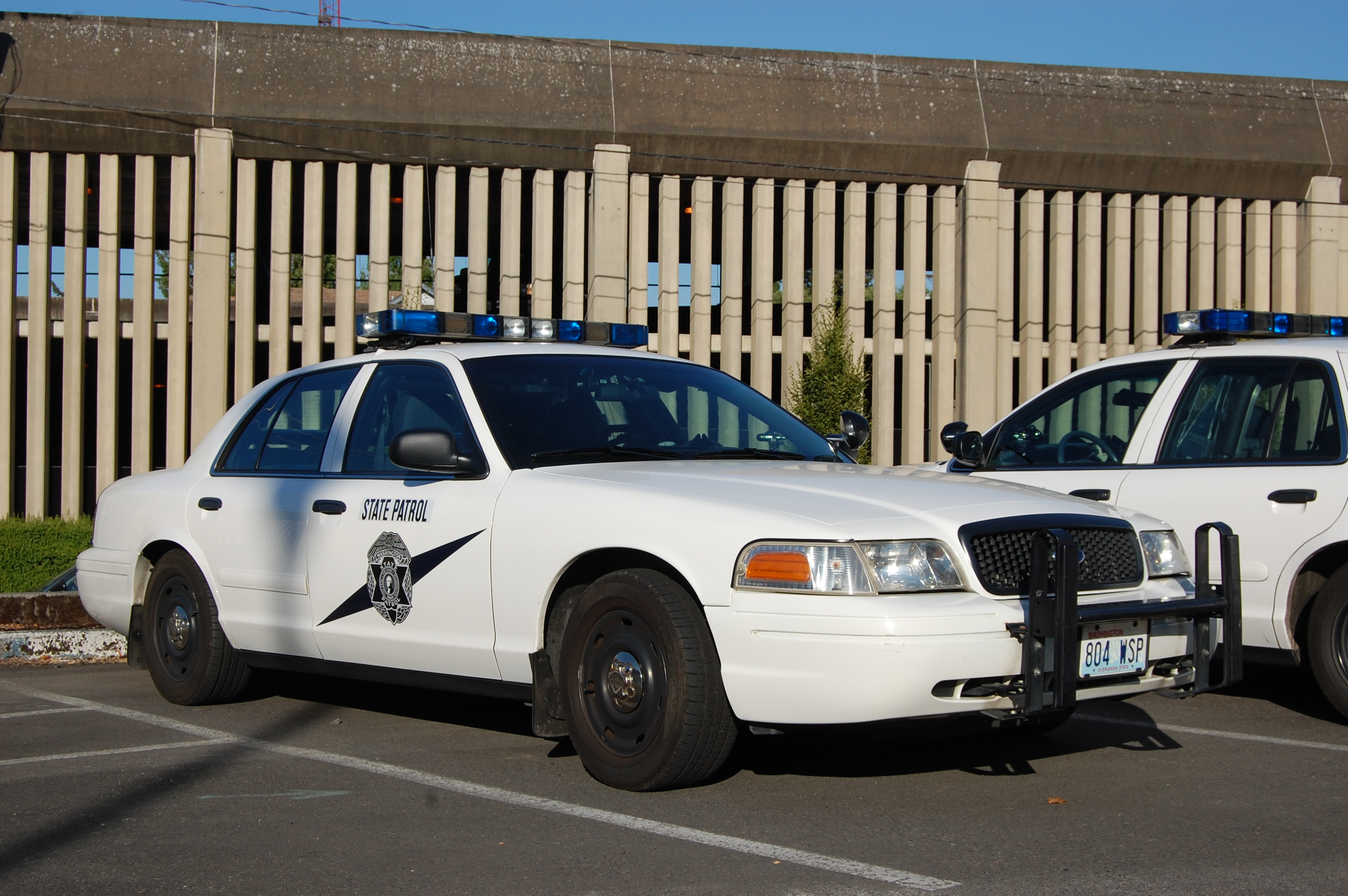 Washington State Patrol Ford Crown Victoria Police Interceptor at the General Administration Building on the Washington State Capitol Campus in Olympia.